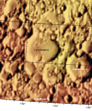 Color-coded topography LAC 34 image from USGS Digital Atlas.